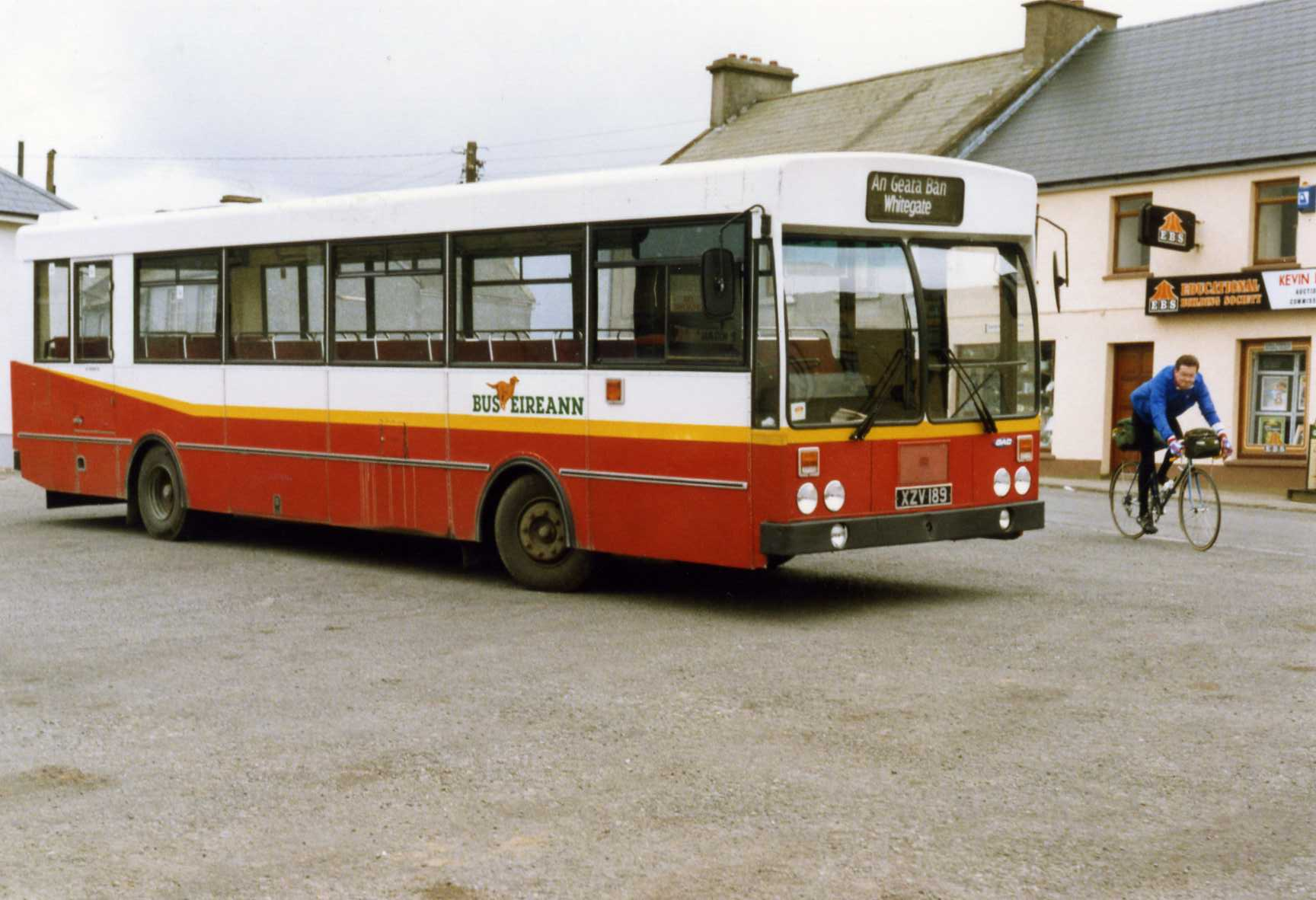 In the background, a branch of the Educational Building Society, Ireland's largest.The bus is a GAC 47 seater ex-CIE Railways 1987. New 1986 as KS189, subsequently RB 189 The GAC was an entirely Irish made bus, and the KS series of single deckers was the rural bus version. The plant at Shannon closed in 1986 after a short life and some vehicles later than this one were completed by the railway company CIE. The distination is Whitegate - An Geata Bán - in the north-east corner of Clare, close to Galway and Tipperary a route which would take the bus along the shore of Lough Derg.